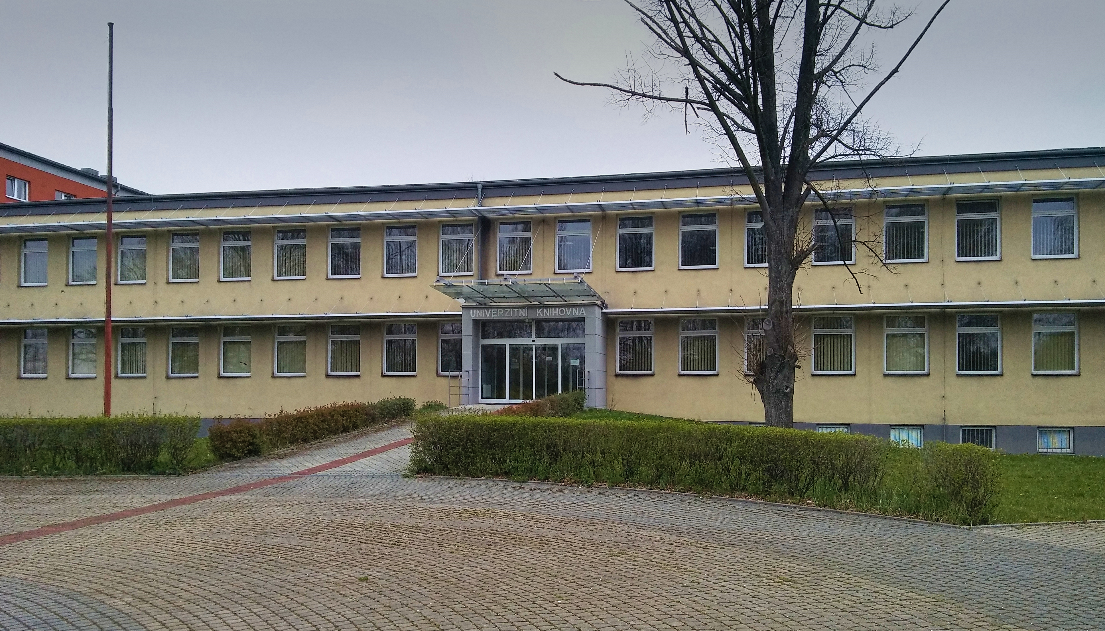 Silesian University in Opava library in Karviná, exterior